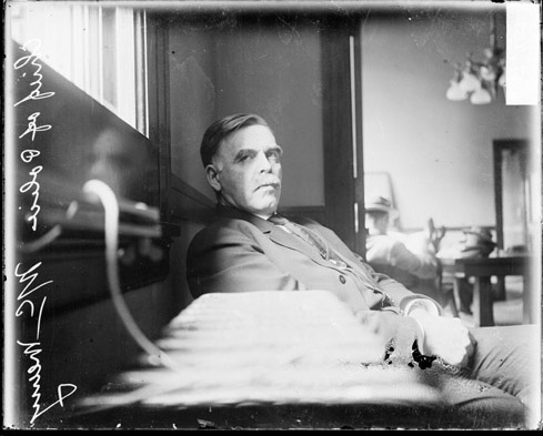 Chicago Chief of Police John McWeeny, taken by a Chicago Daily News photographer in 1911 and possibly published in the newspaper. McWeeny vowed to devote the entire Chicago police force to find the killer of Elsie Paroubek, aged five, who disappeared a few steps from her home on April 8, 1911, and was found dead a month later. Chicago Daily News negatives collection, DN-0057767. Courtesy of Chicago History Museum.